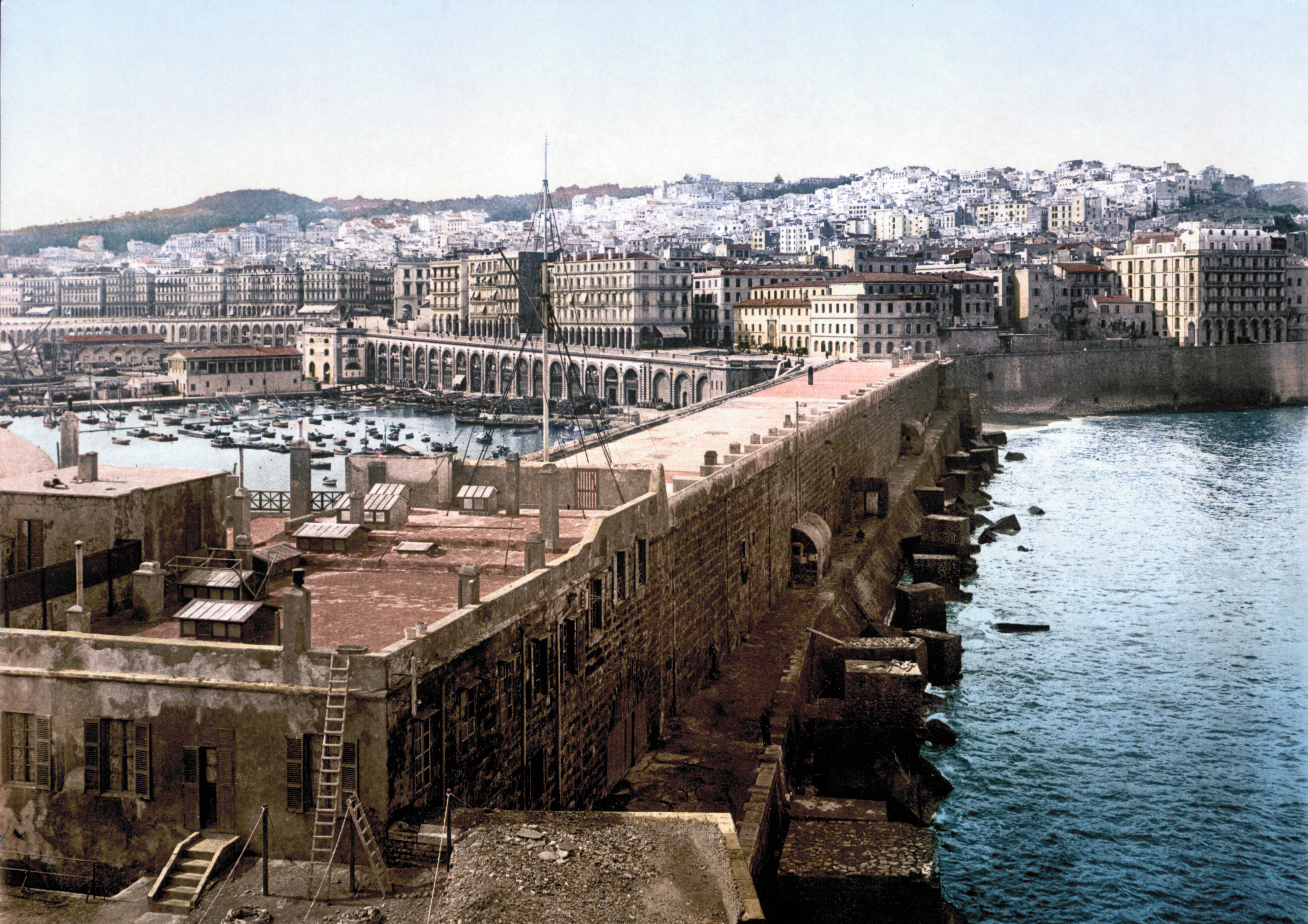 The harbor from the lighthouse, Algiers (Algeria, 1899).